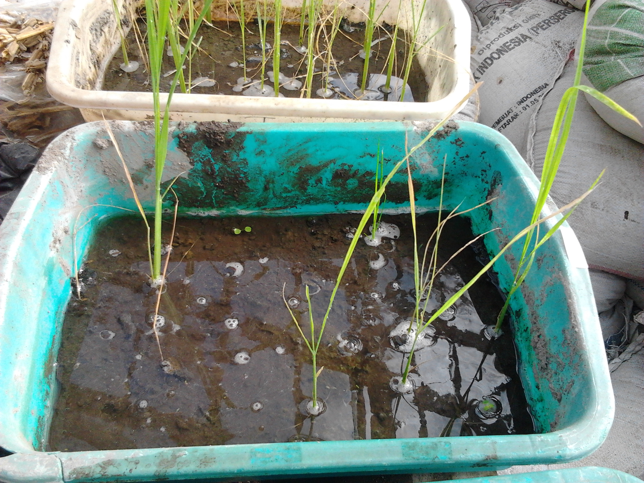 Rice Seedling